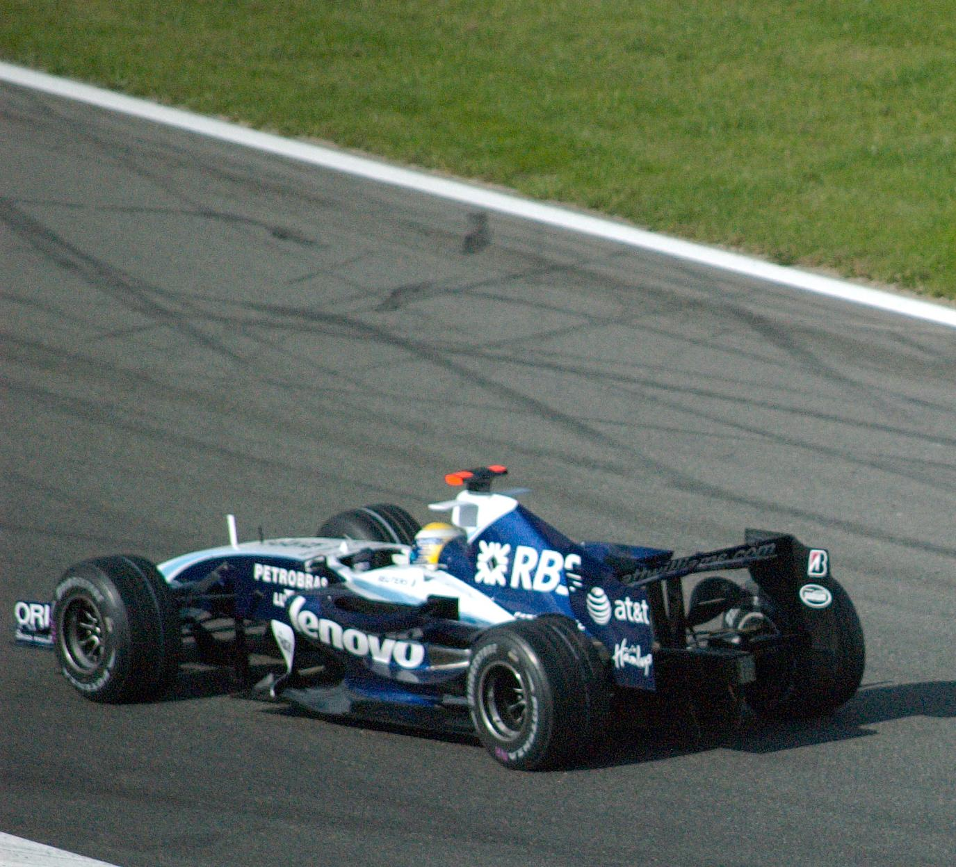 Nico Rosberg driving for Williams at the 2007 Belgian Grand Prix.